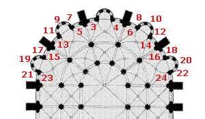 Ambulatory windows. Bourges cathedral. From BourgesDB362.jpg